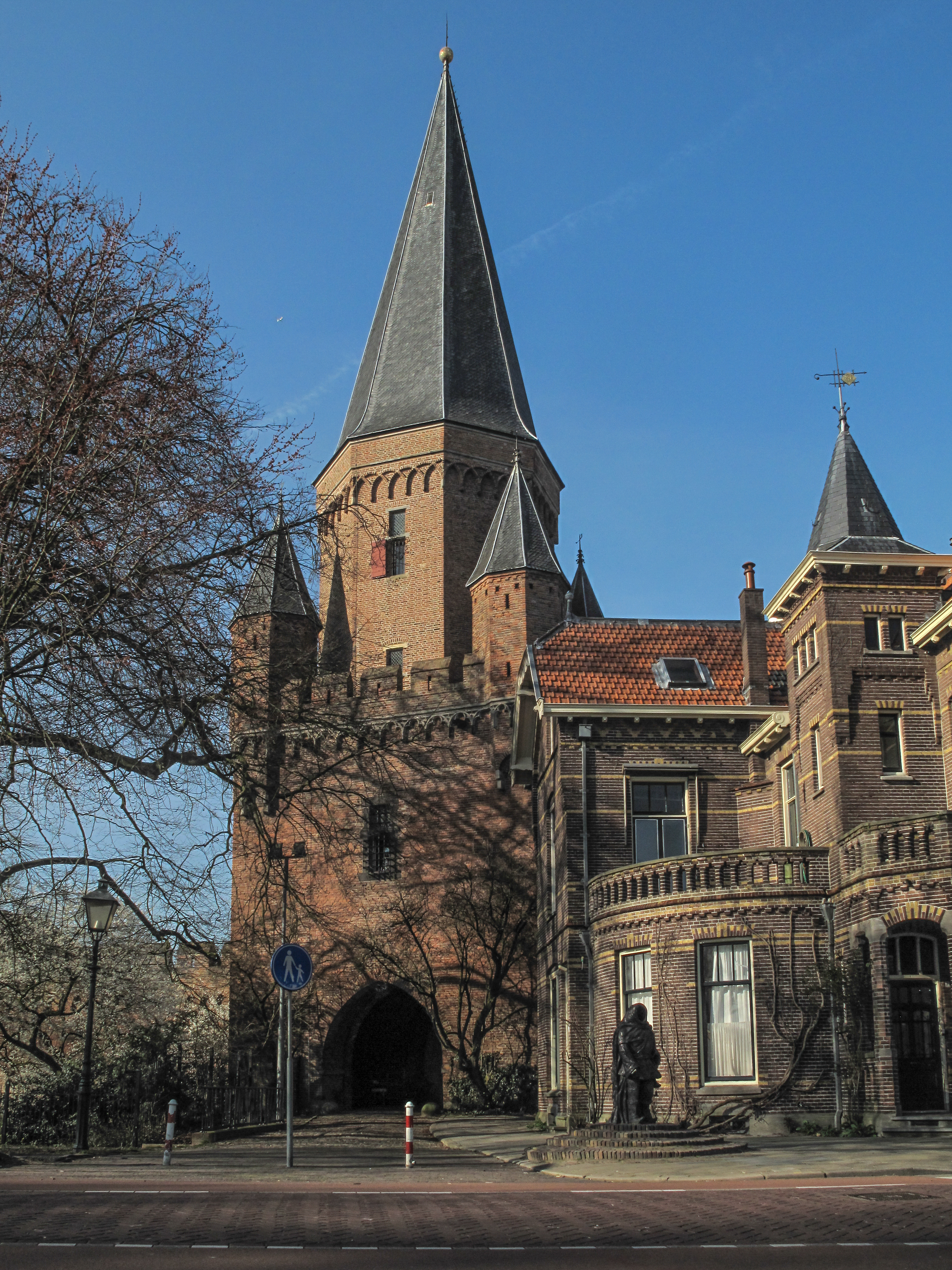 Zutphen, tower: de Drogenapstoren